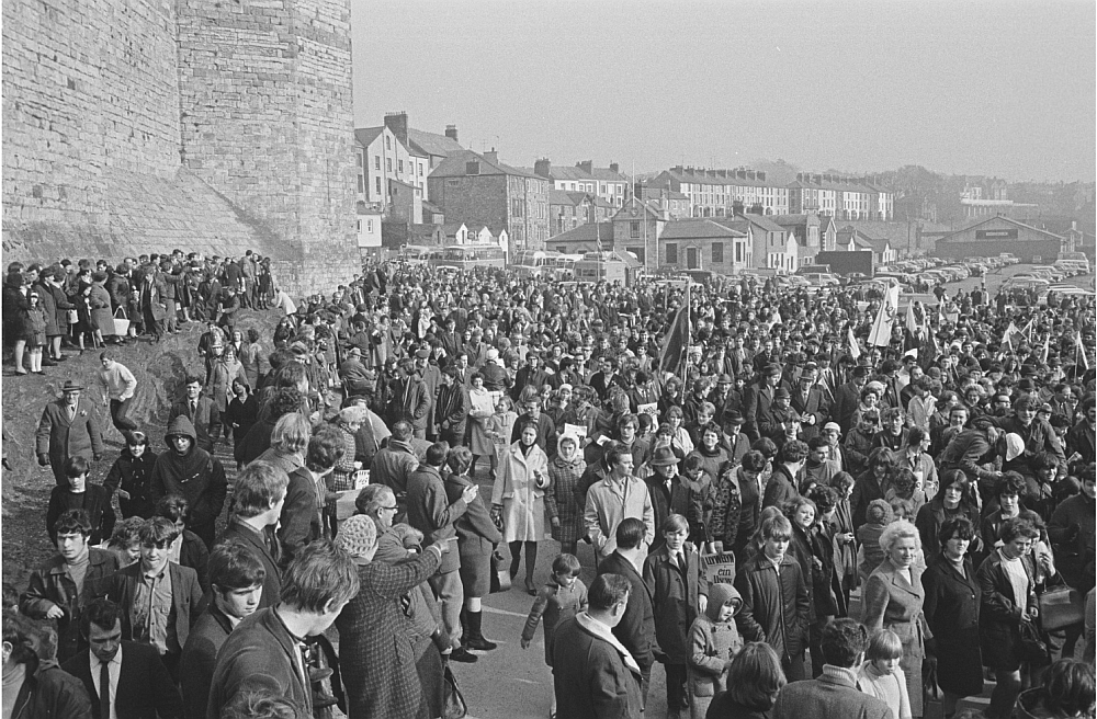 Photographs by Welsh photo journalist Geoff Charles 'Cofia 1282', a protest against the investiture of Prince Charles at Caernarfon Castle in North Wales.